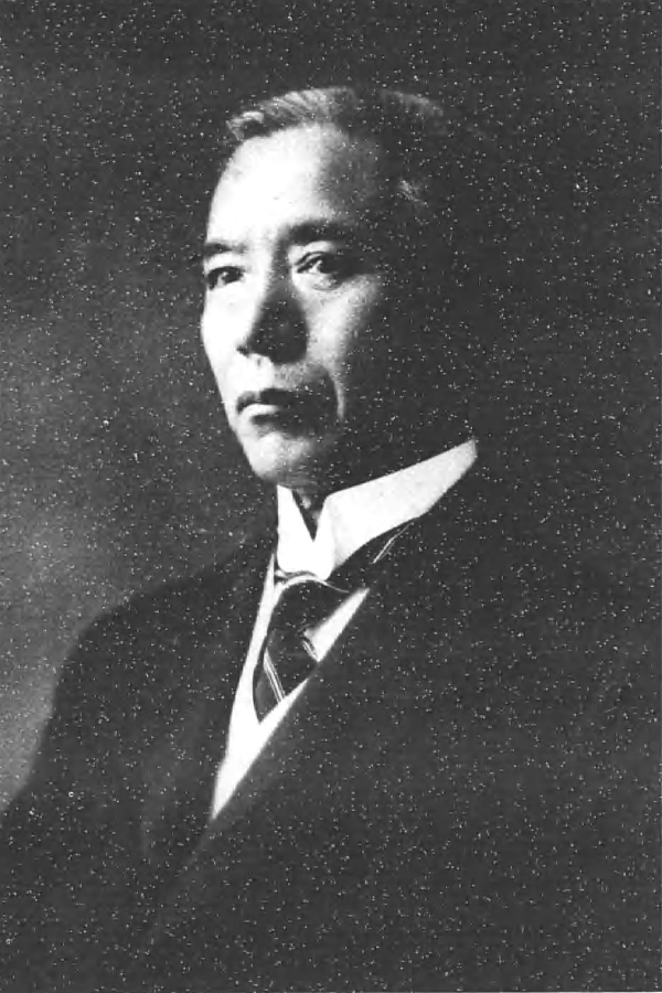 Kanbe Kyouichi